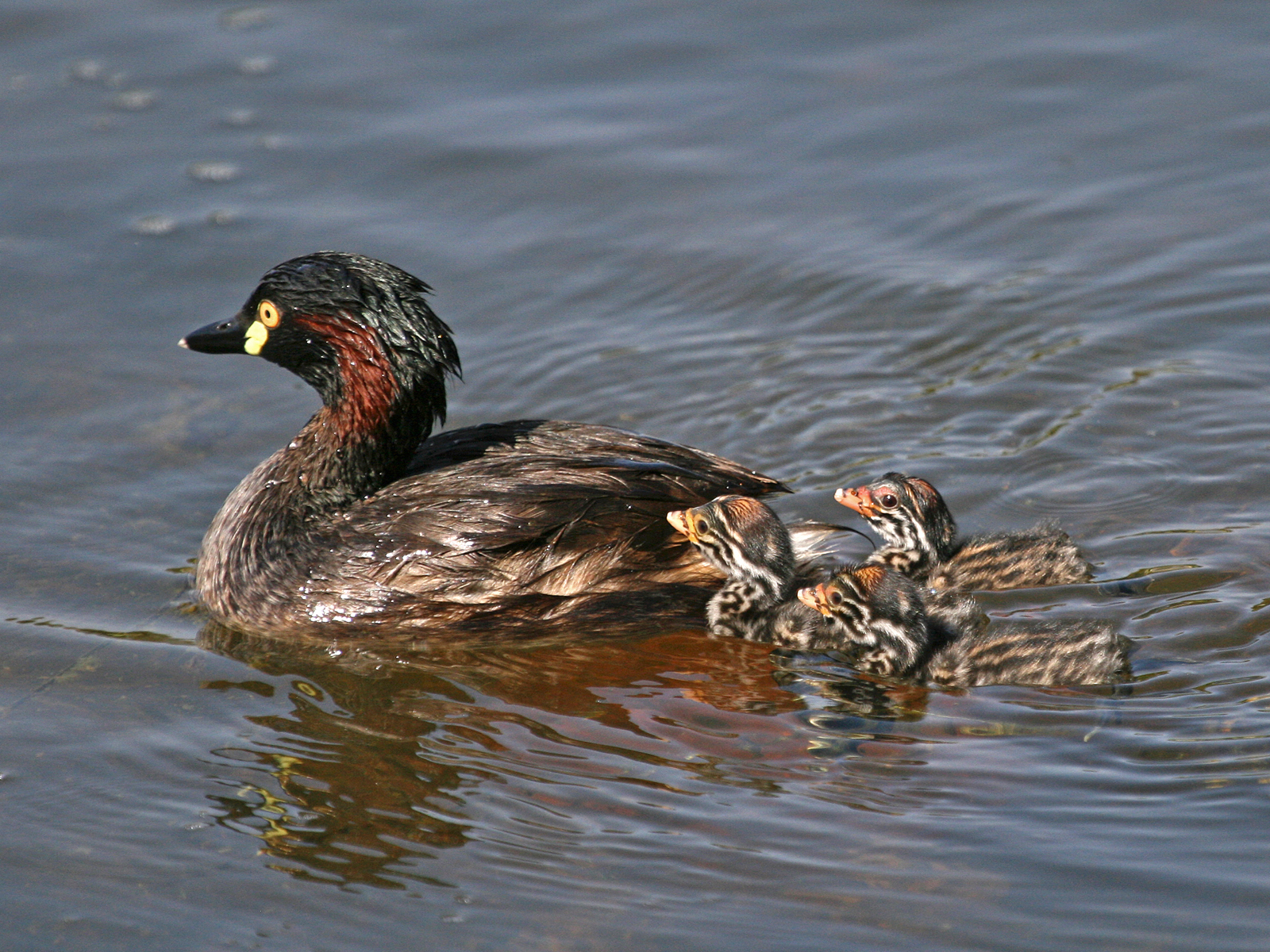 Australasian Grebe, Tachybaptus novaehollandiae, Parent with babies